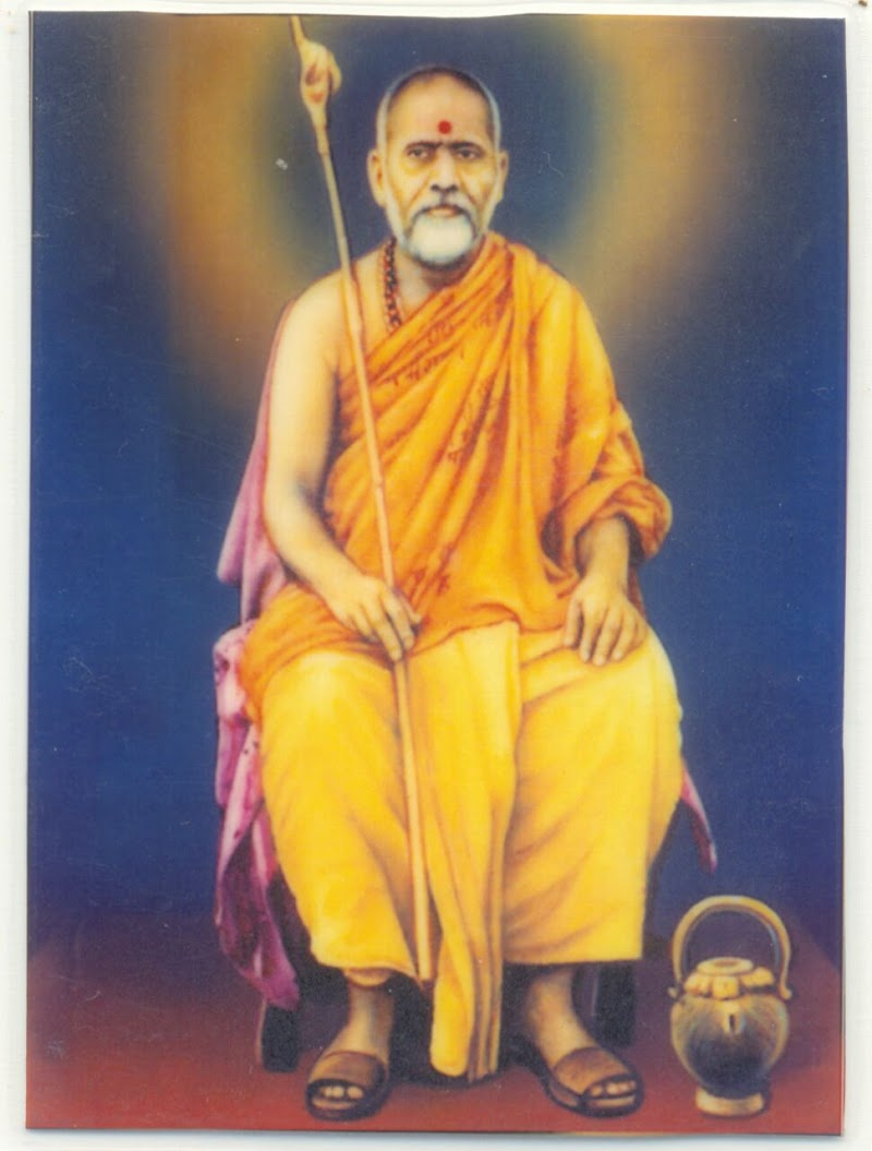 Paramahansa Parivrajakacharya Shri Pradnyanananda Saraswati Swami_Karve Swami_Dandi Swami was one of the great Sanyasies in India.